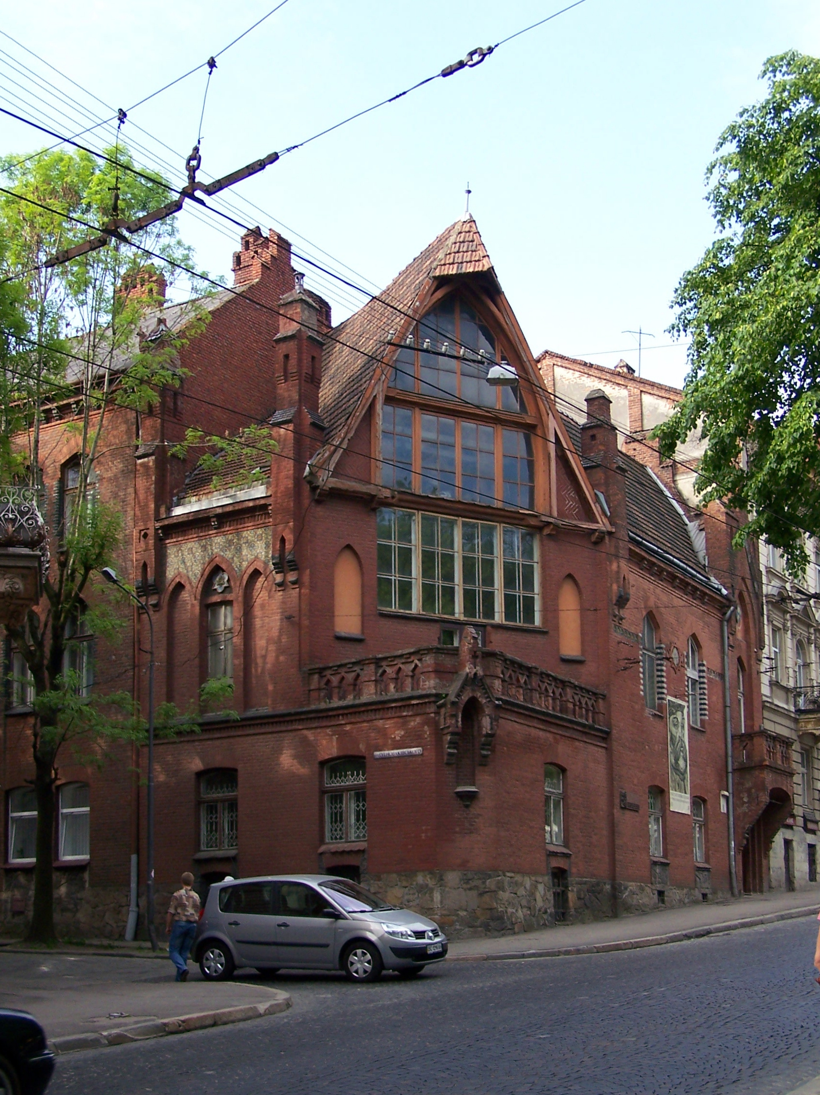 Jan Styka House in Lviv (Ukraine).